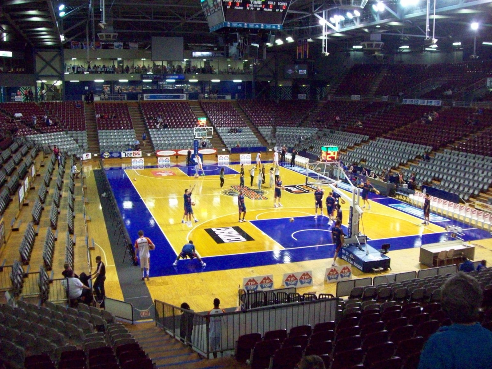 The Adelaide 36ers warming up for their game against the Melbourne Tigers @ the Brett Maher Court on feb 18, 2011.